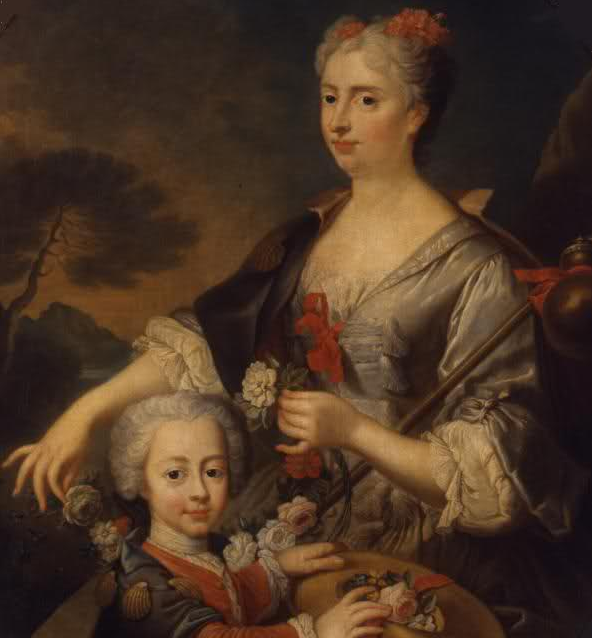 Portrait of Victoire Françoise of Savoy, Princess of Carignan and her son Louis Victor